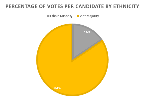 Vietnam Election 2011 results show that ethnic minorities made up 15.6% of parliamentary seats.